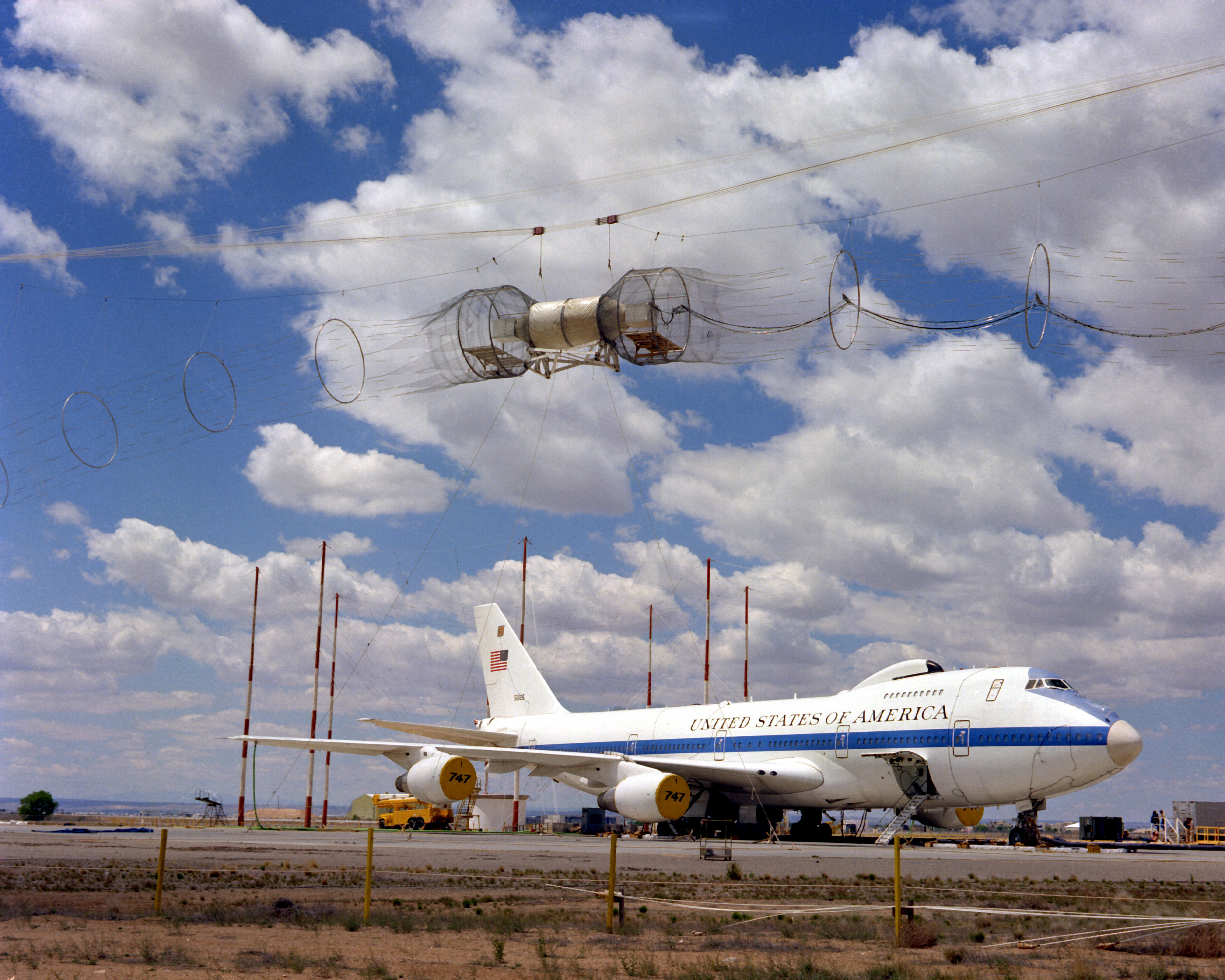 A right front view of an E-4 advanced airborne command post (AABNCP) on the electromagnetic pulse (EMP) simulator for the testing. Location: KIRTLAND AIR FORCE BASE, NEW MEXICO (NM) UNITED STATES OF AMERICA (USA). Call Sign : USAF-50125